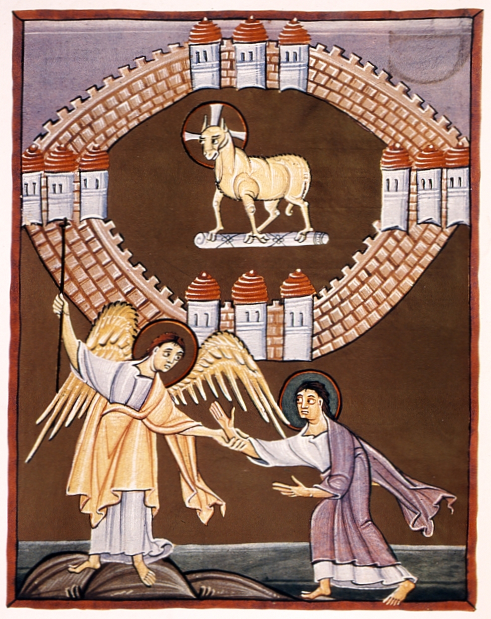 The New Jerusalem